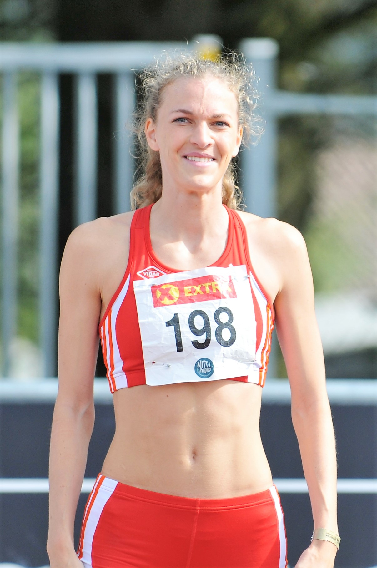 Line Kloster at the Norwegian Athletics Championships in Sandnes 2017.